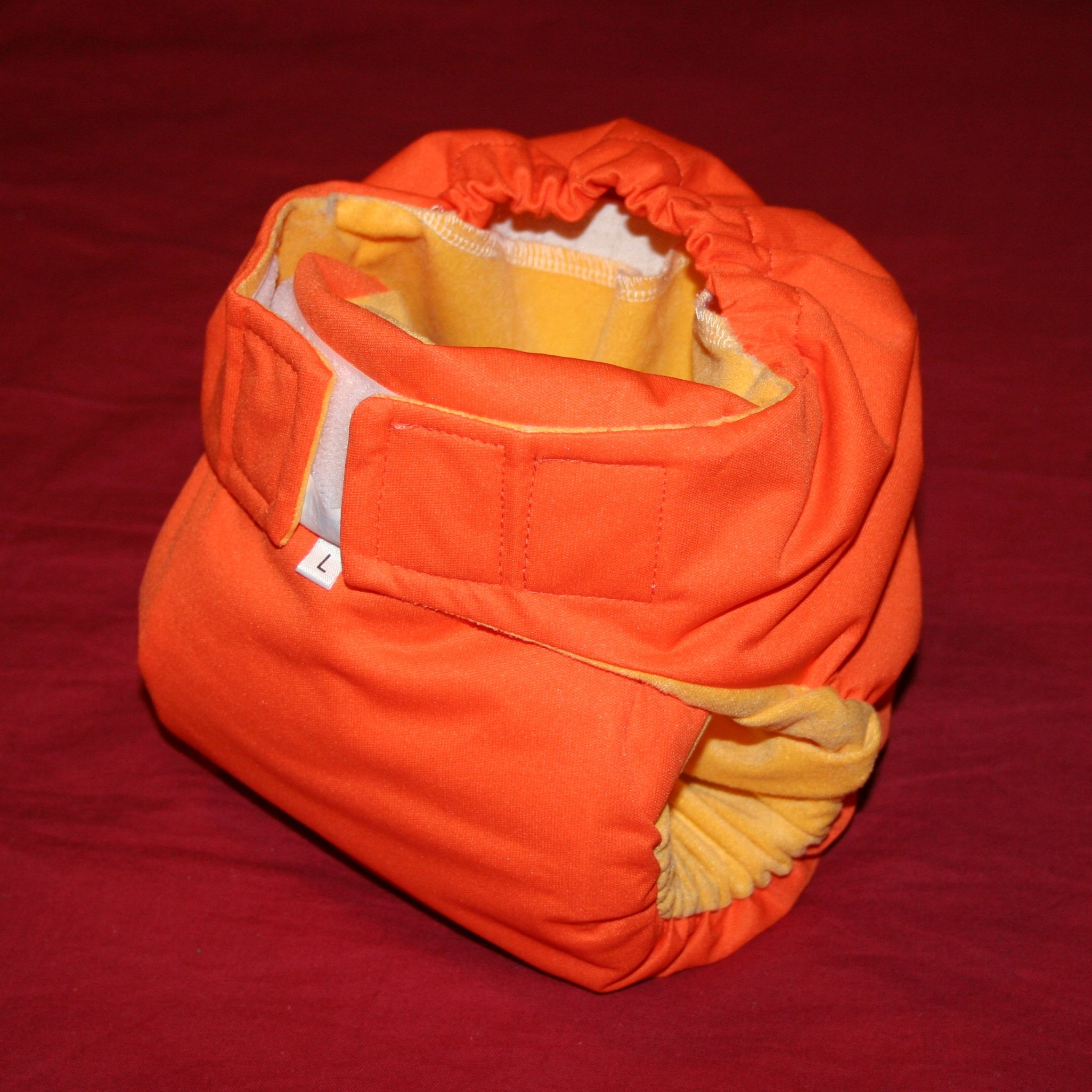 Pocket cloth diaper (insert goes in back) with aplix closing.